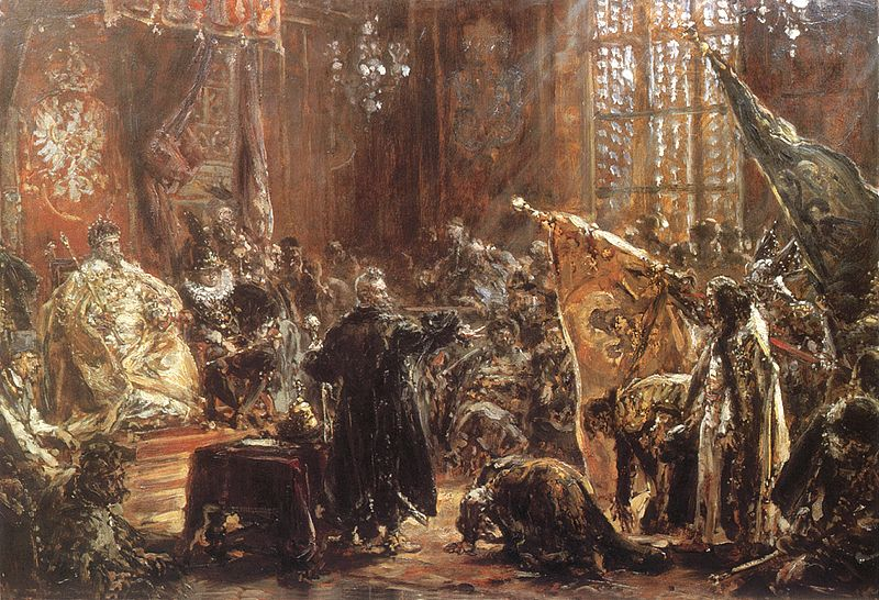 Russian Tsar Vasili IV Shuyski brought by Zólkiewski and compelled to knee before Polish King Sigismund III Vasa at Sejm in Warsaw on 29 October 1611